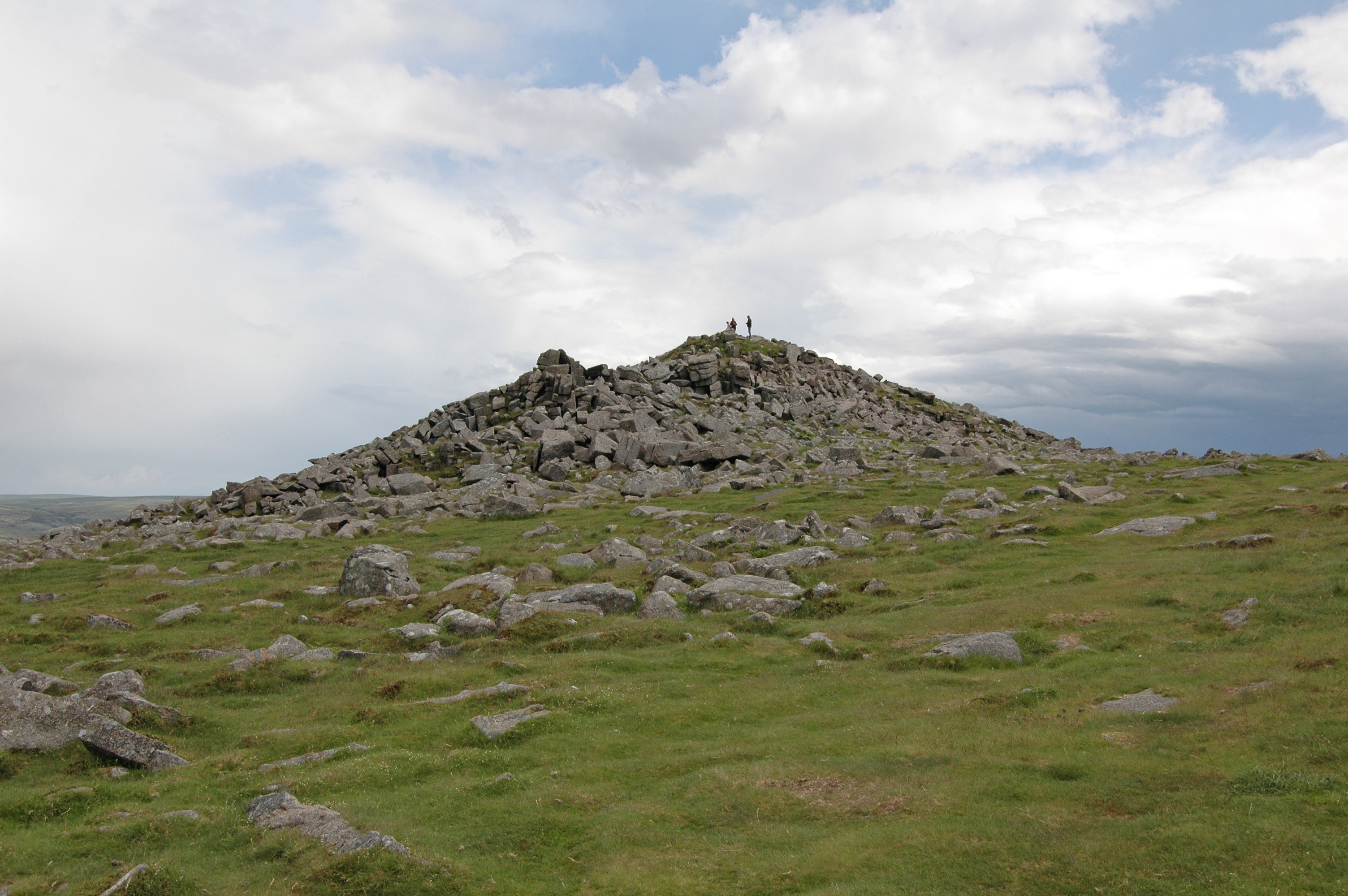 Sharpitor, near Burrator Reservoir, in southern Dartmoor.